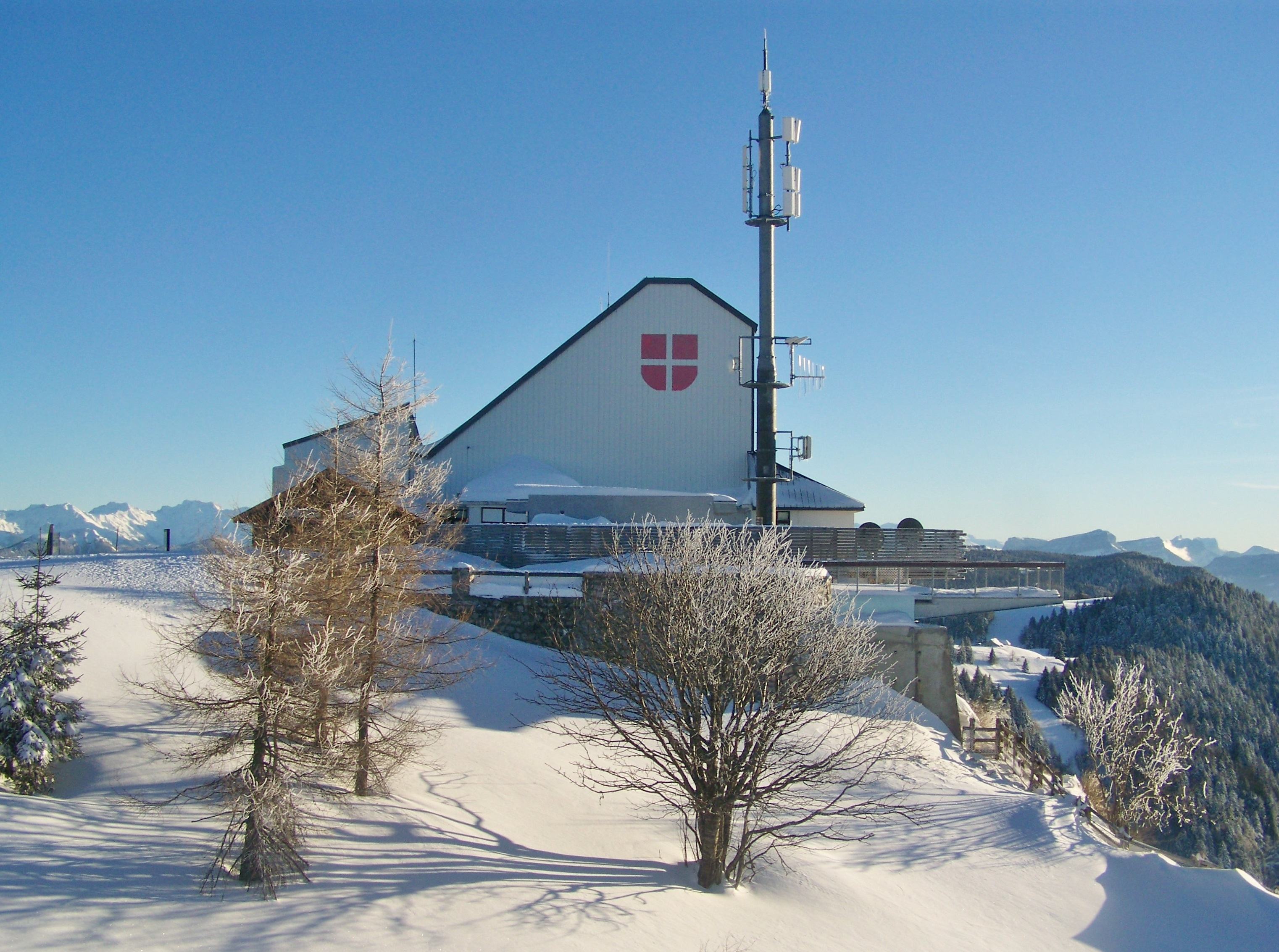 Sight, in winter, of the panoramic restaurant building at the top of the mont Revard mount, in Savoie, France.